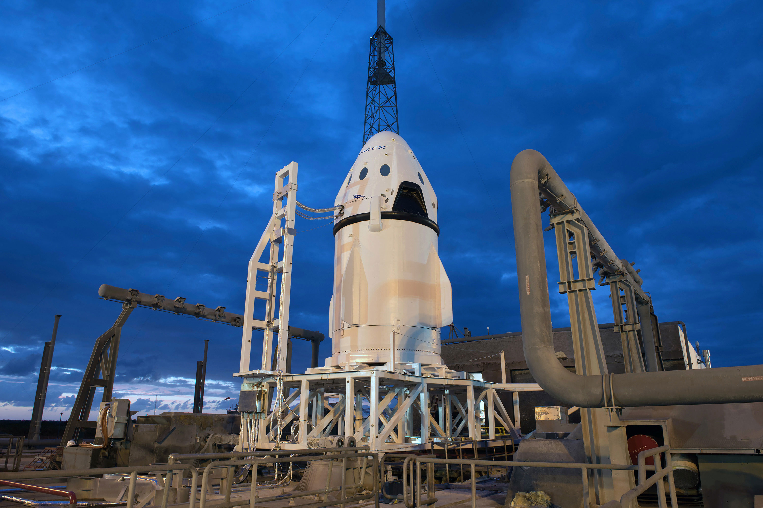 On May 6, 2015, SpaceX completed the first key flight test of its Crew Dragon spacecraft, a vehicle designed to carry astronauts to and from space. The successful Pad Abort Test was the first flight test of SpaceX's revolutionary launch abort system, and the data captured here will be critical in preparing Crew Dragon for its first human missions in 2017.